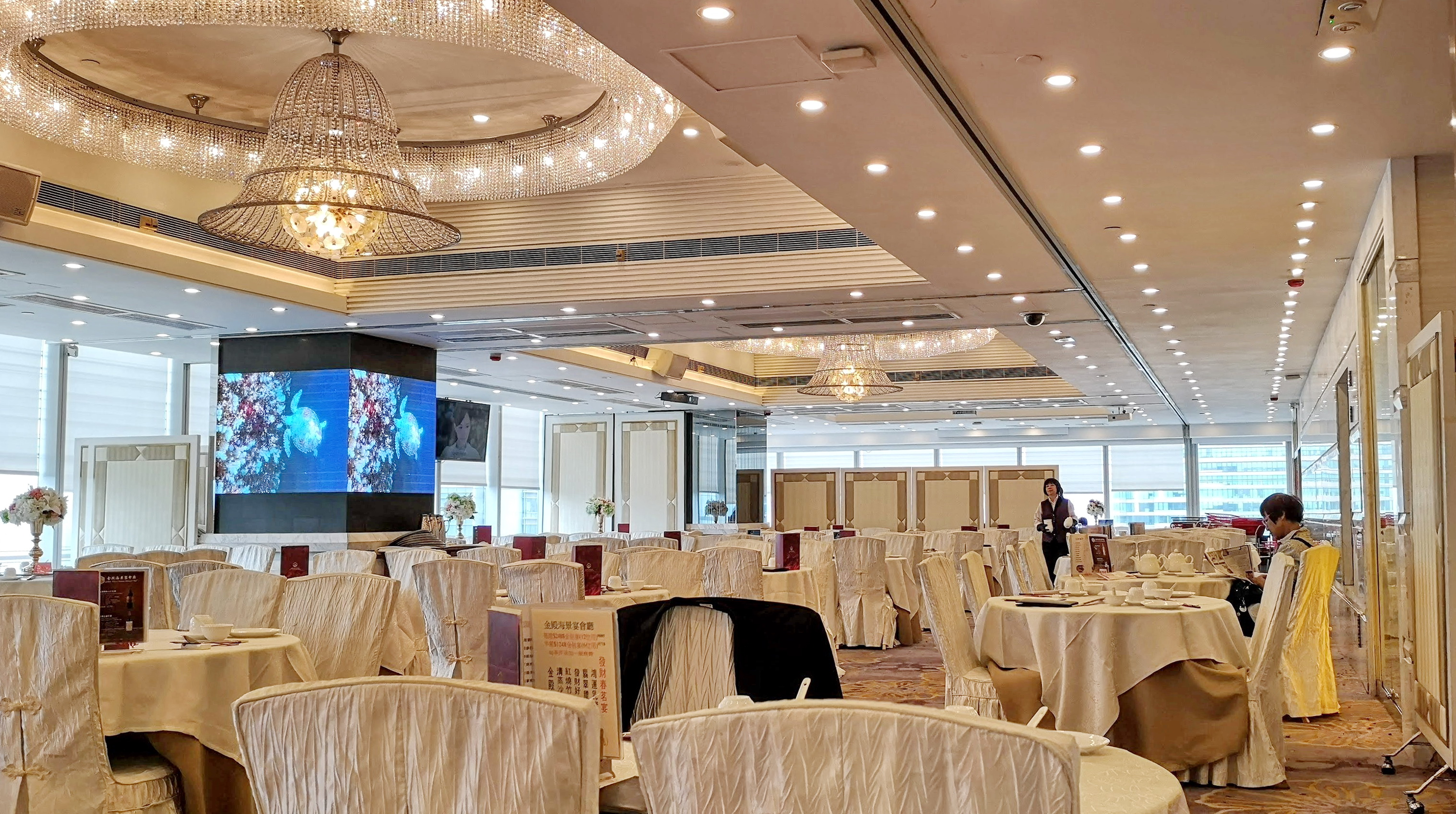 Golden Palace Seaview Banquet Hall, Hong Kong.